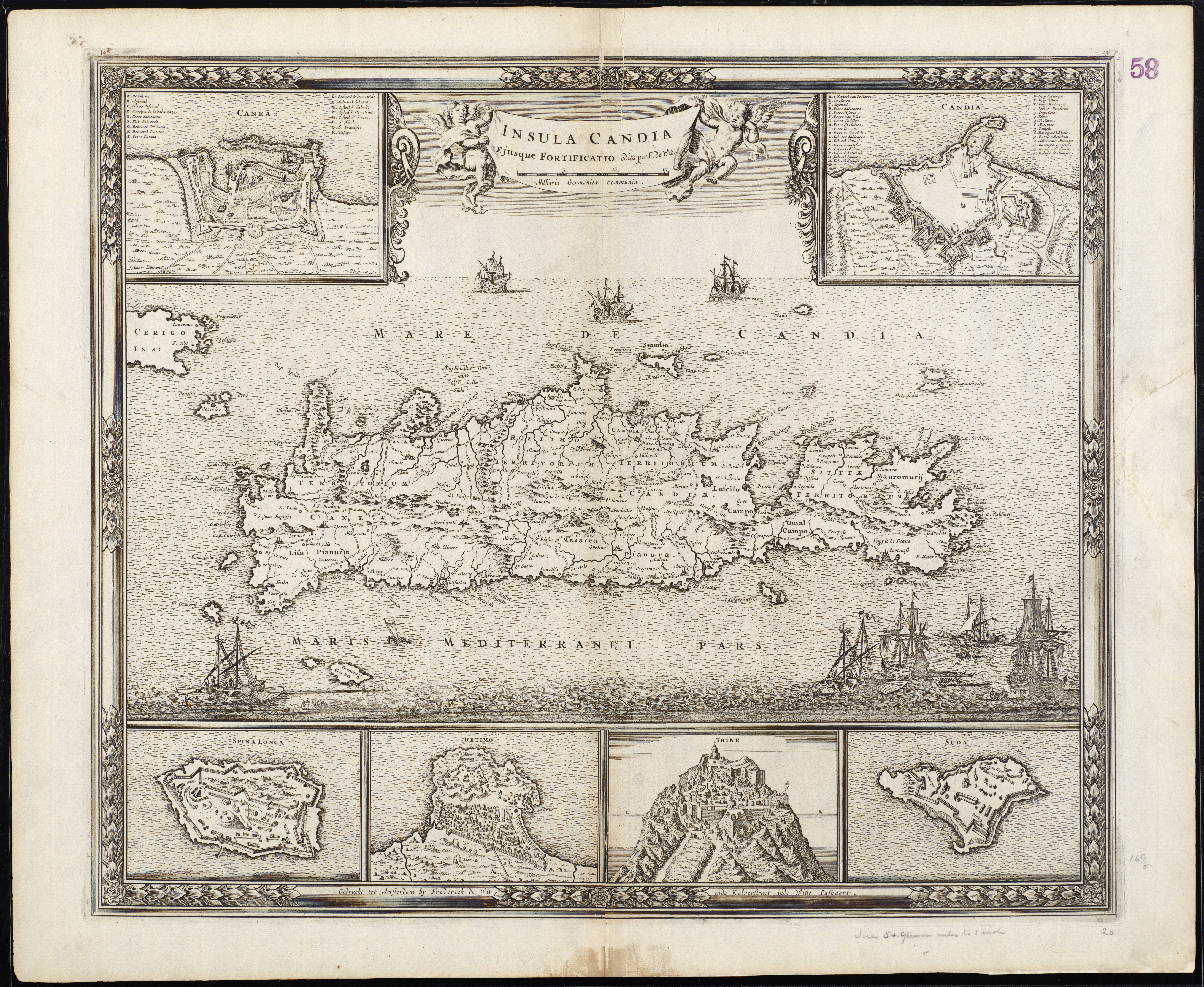 Zoom into this map at . Author: Wit, Frederik de Publisher: Wit, Frederik de Date: 1680 Location: Crete (Greece) Dimensions: 34 x 51 cm, on sheet 52 x 63 cm. Scale: [ca. 1:470,000] Call Number: G1015 .C65 1630